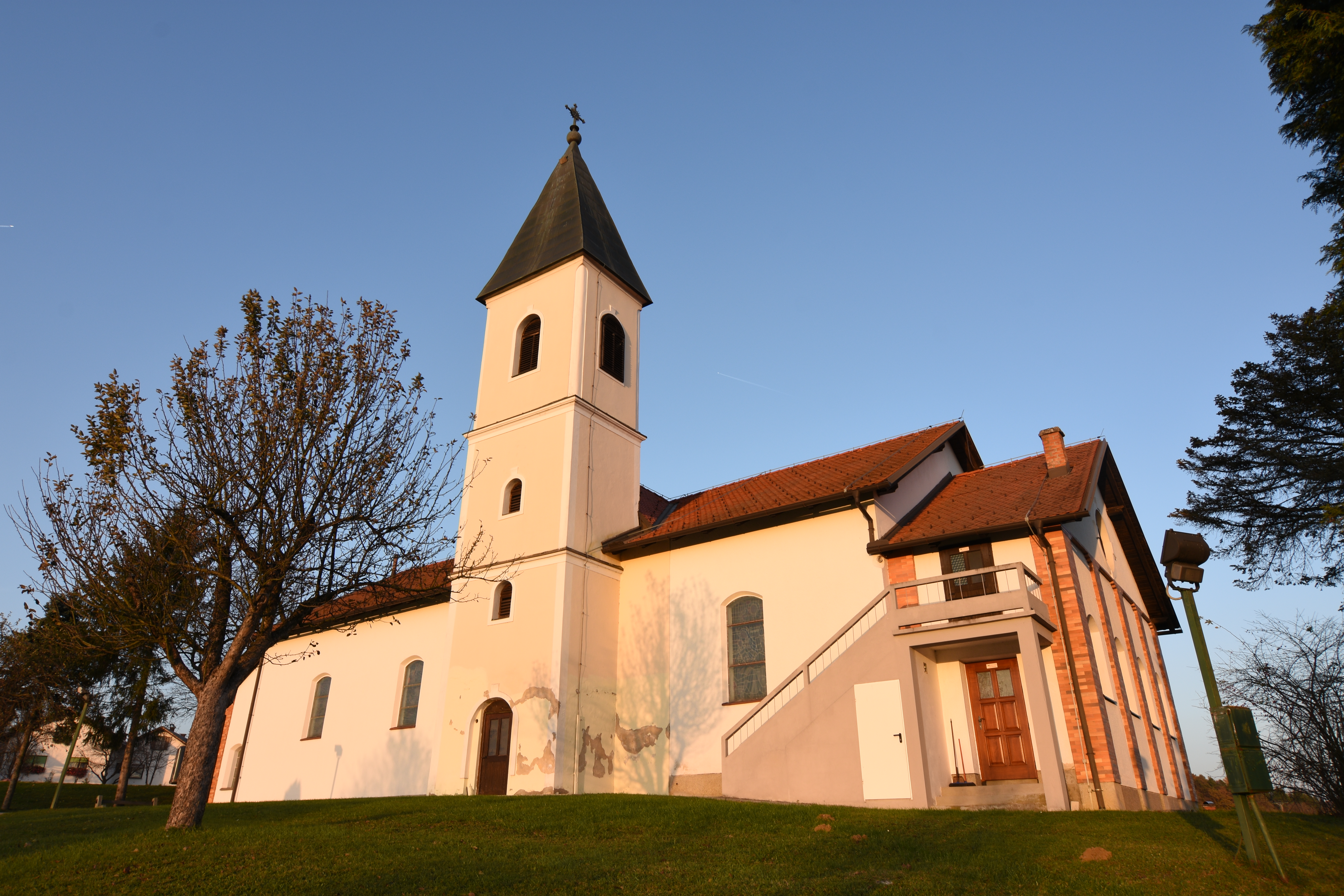 Church Kuzma